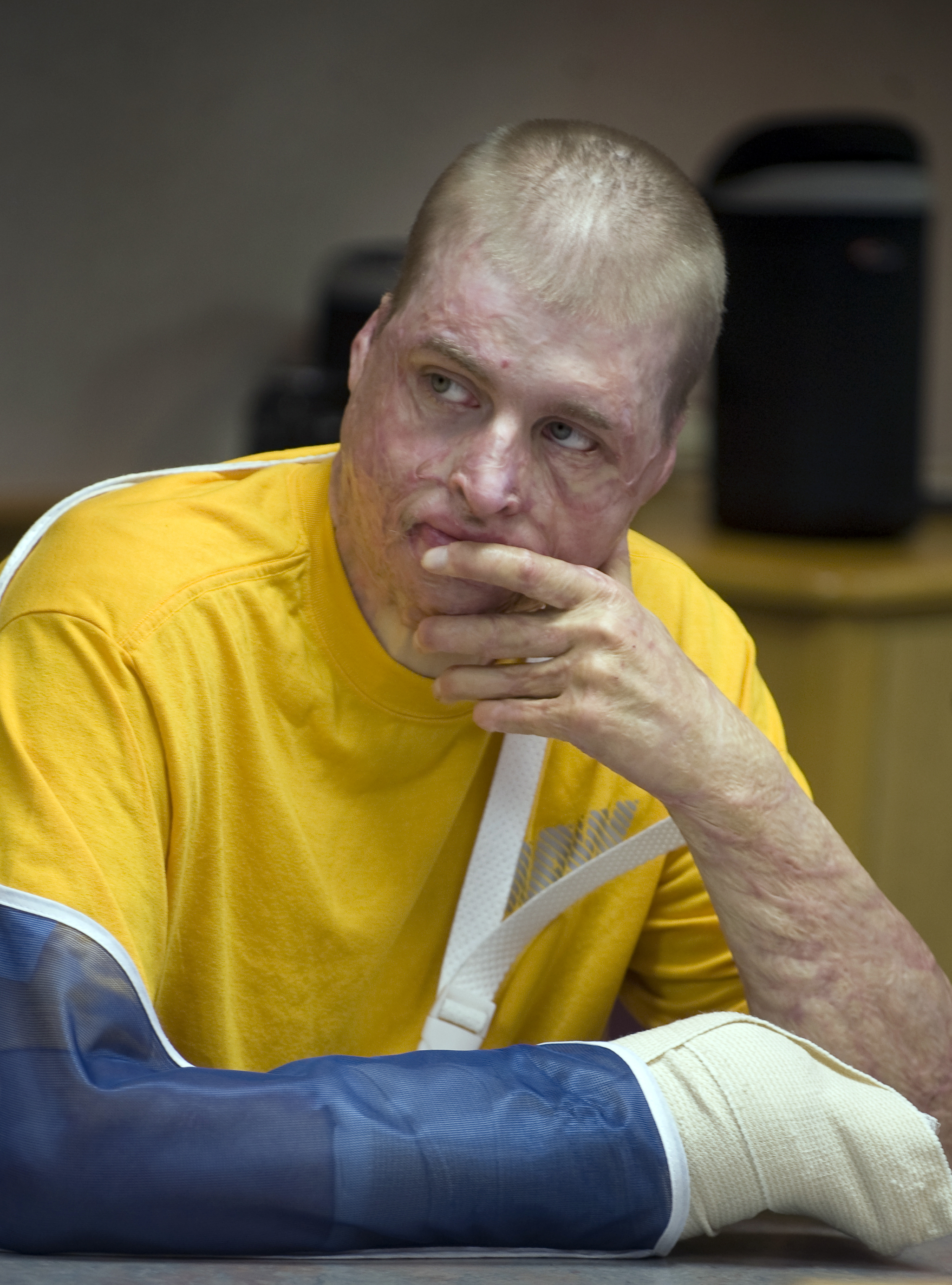 Petty Officer 1st Class Michael Lammey listens during weekly quarters at Brook Army Medical Center in San Antonio, Texas. Lammey and his fellow Sailors and hospital staff discuss issues and accomplishments during quarters. Lammey is recovering at Brooke Army Medical Center after being burned when a boiler exploded aboard the Emory S. Land-class submarine tender USS Frank Cable.